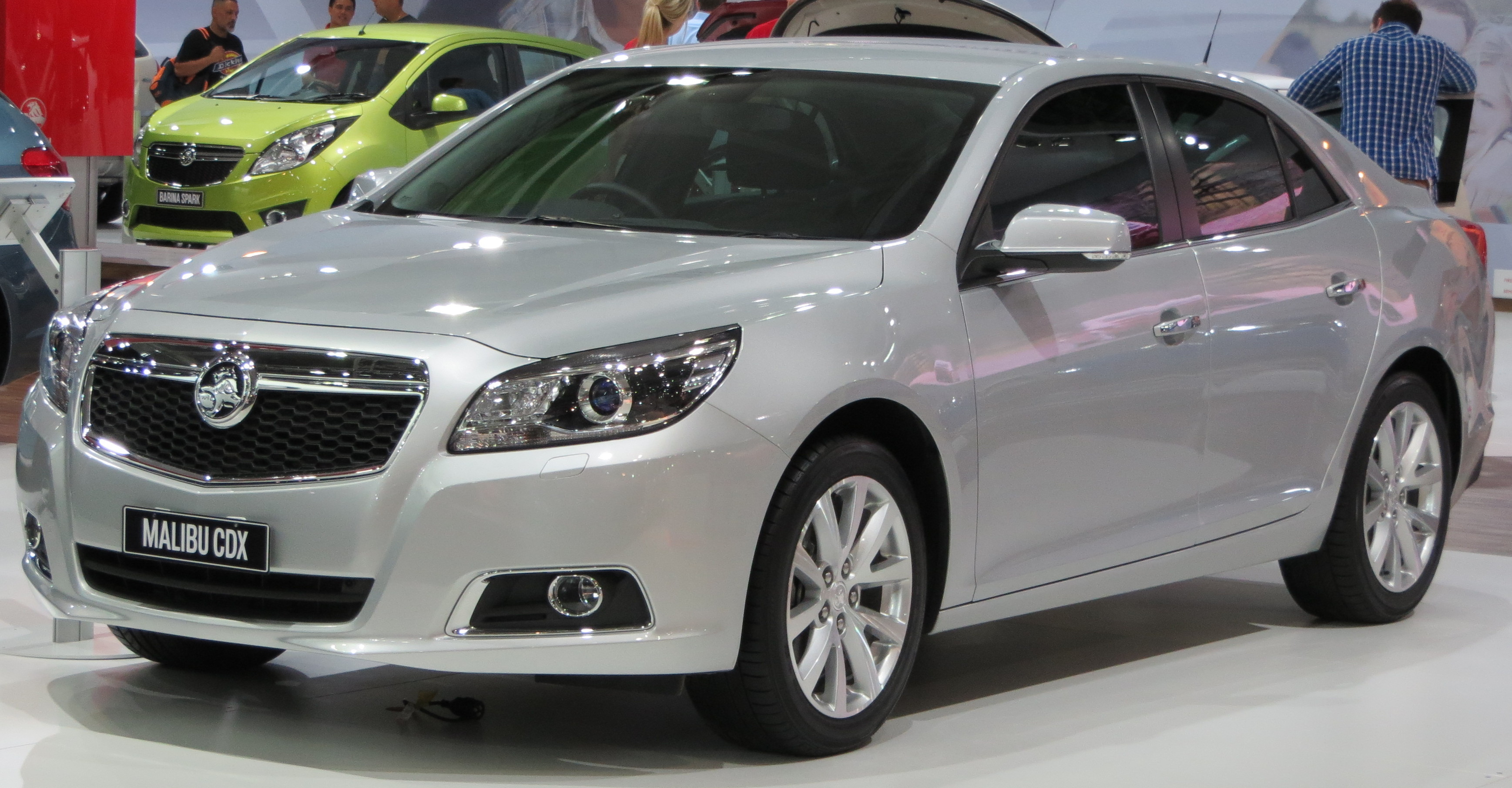 2012 Holden Malibu (EM) CDX sedan. This is a pre-production model, the production model made its Australian sales debut in June 2013. Photographed at the 2012 Australian International Motor Show, Sydney, New South Wales. Australia.